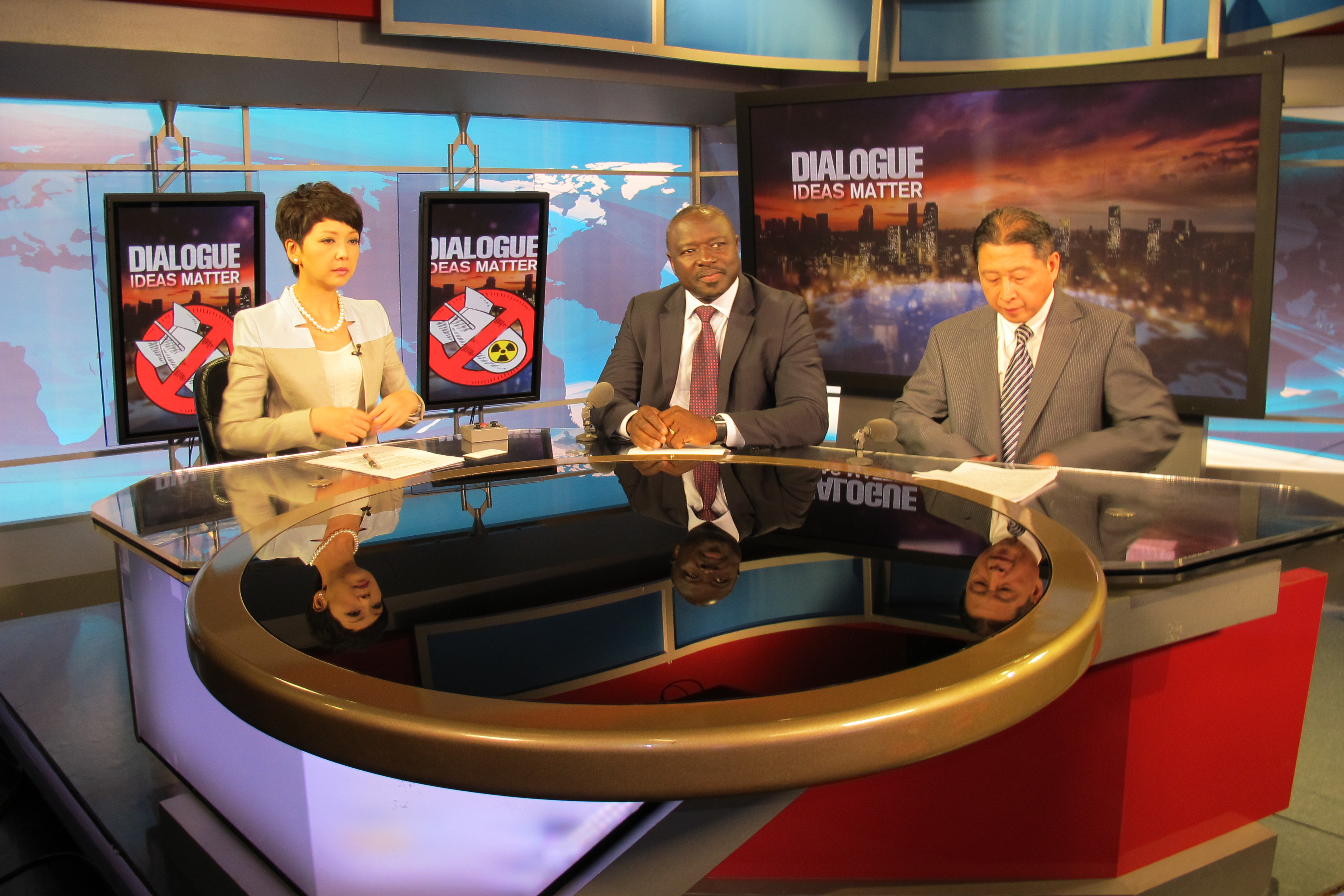 Executive Secretary Lassina Zerbo (centre) was interviewed by China Central Television's (CCTV) English-speaking "Dialogue Ideas Matter" Programme. Left: Moderator TIAN Wei; right: XIA Liping, Dean of School of Political Science and International Relations, Tongji University, China.